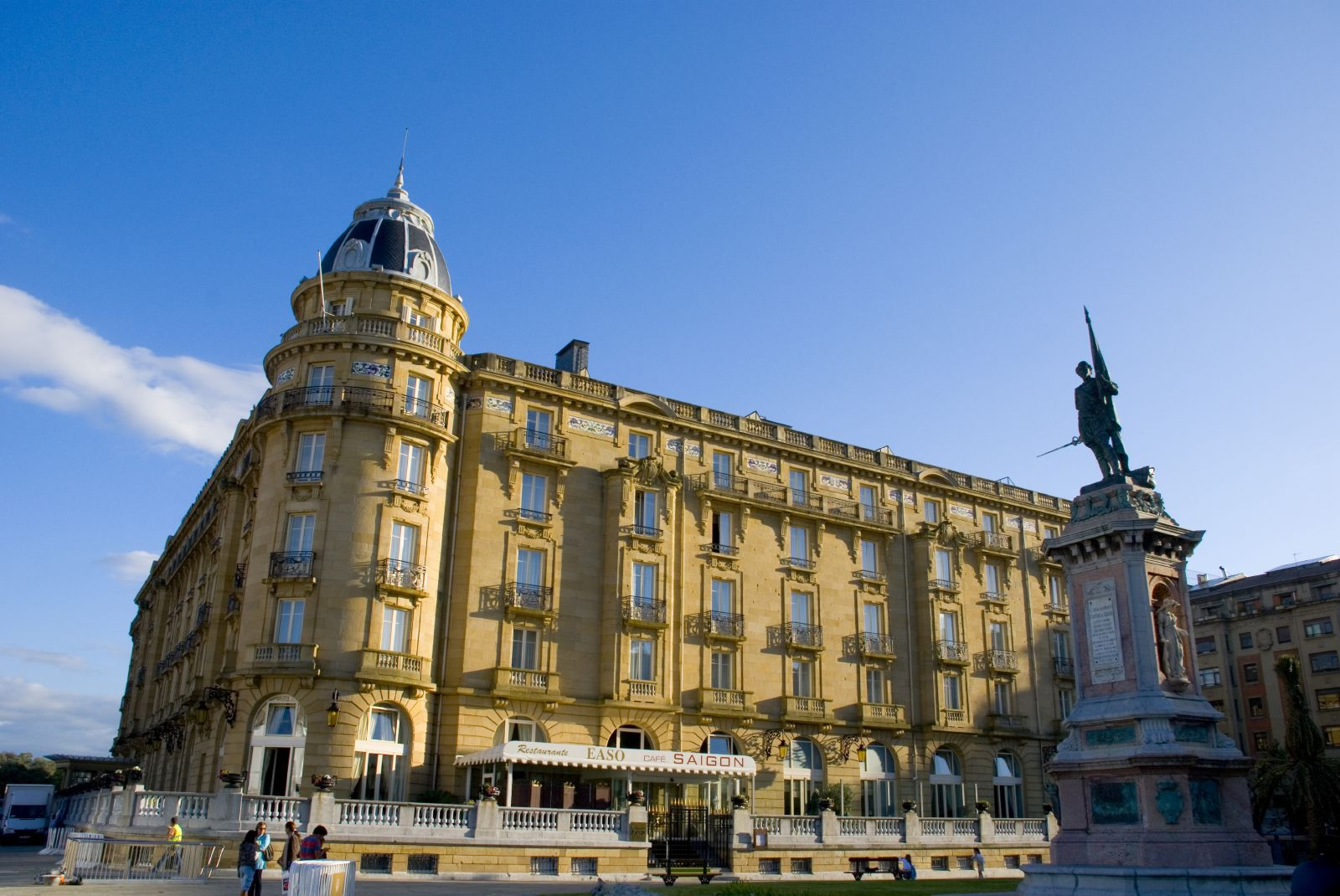 Maria Cristina Hotel (1912) in San Sebastian, Spain. Author: Mike_el Madrileño (Flickr)